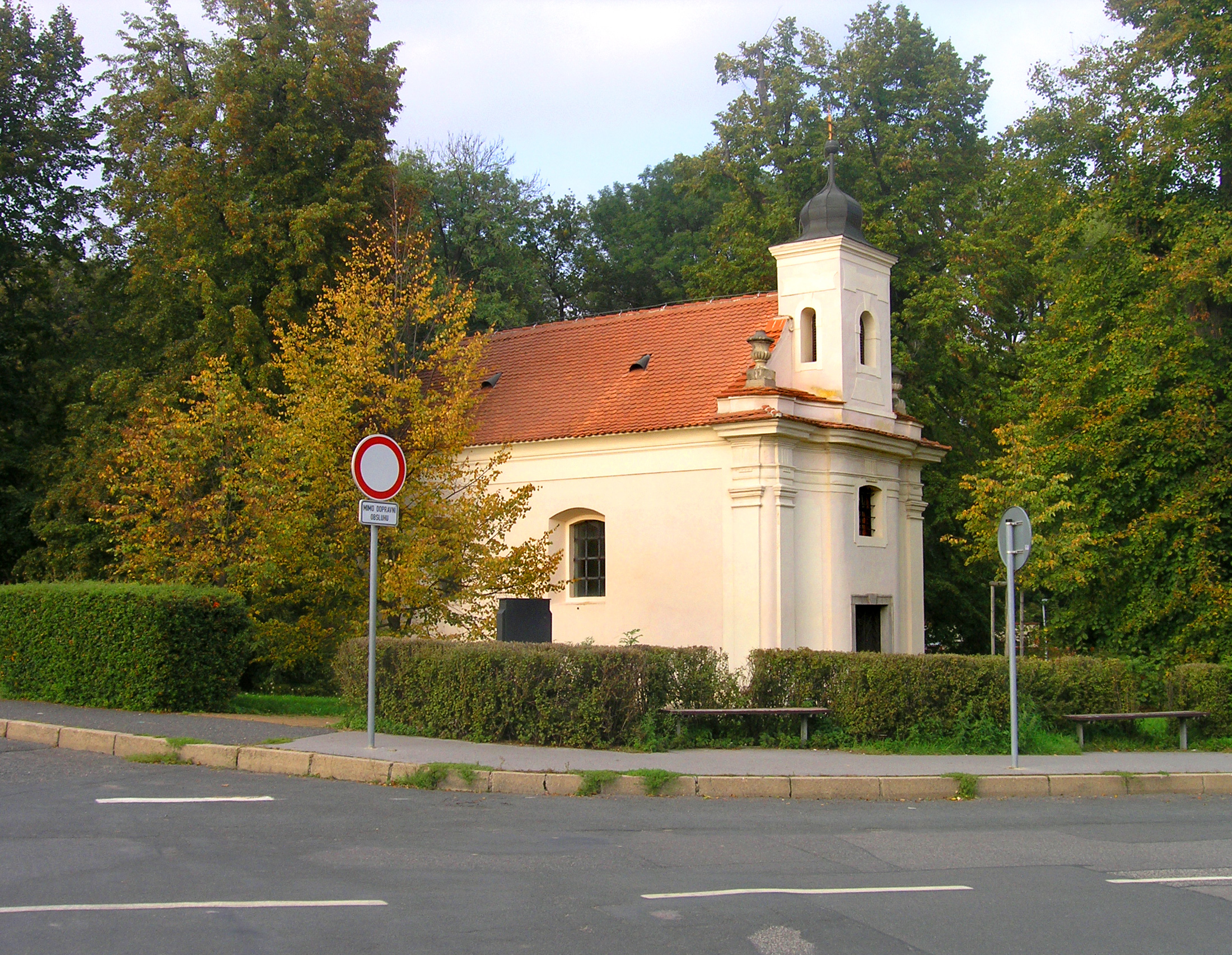 Svatá Anna chapel at K Radonicům street in Satalice, Prague